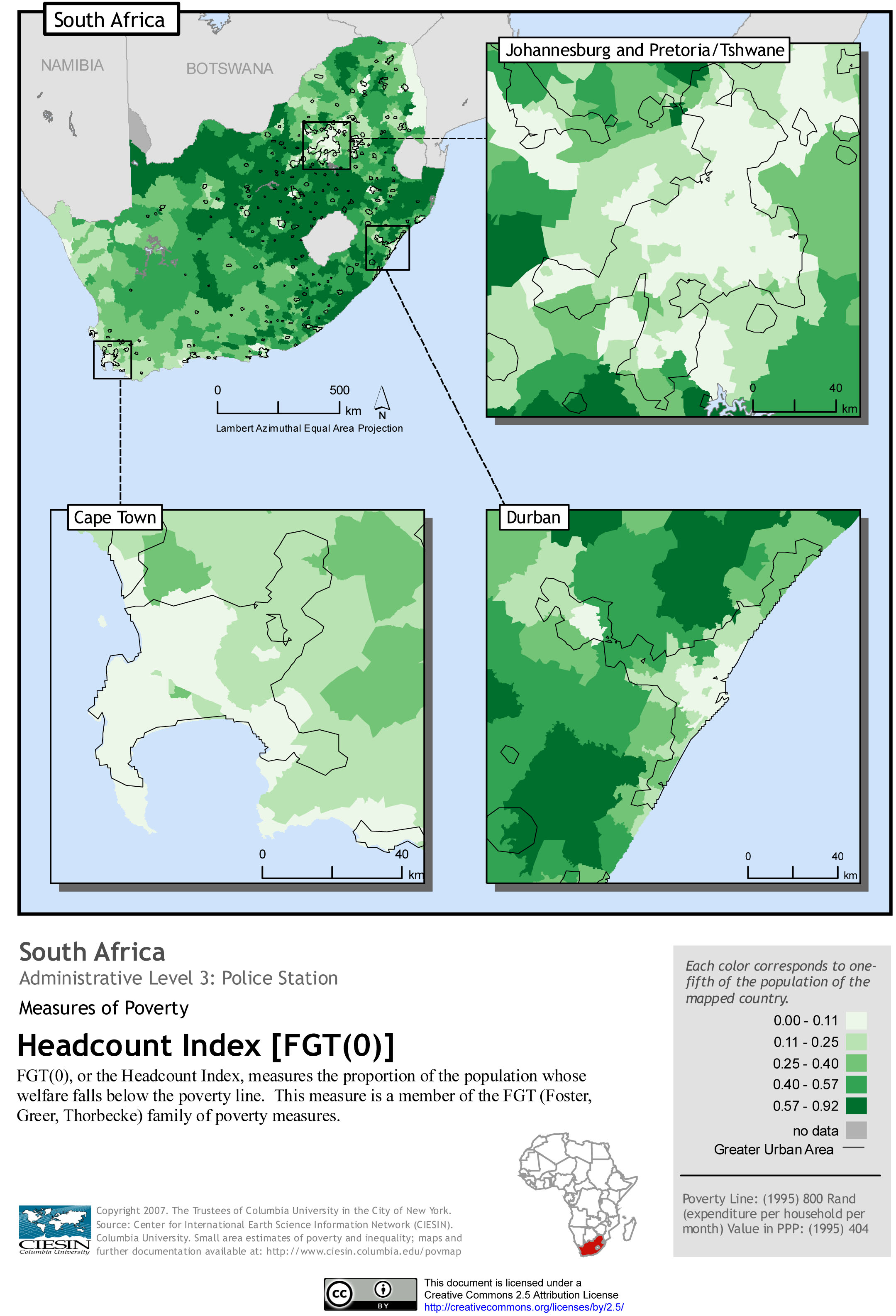 South Africa Headcount Index, First Tier Cities